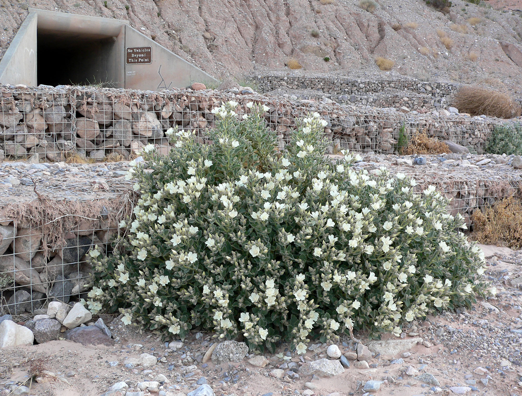 Eucnide urens in Gypsum Wash where Northshore Drive crosses it, Lake Mead National Recreation Area, southern Nevada